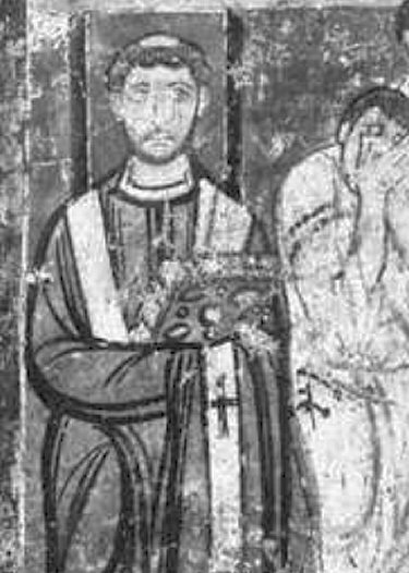 The Assumption of the Virgin, Pope St. Leo IV at left, detail of a 9th-century fresco in the basilica of S. Clemente, Rome.